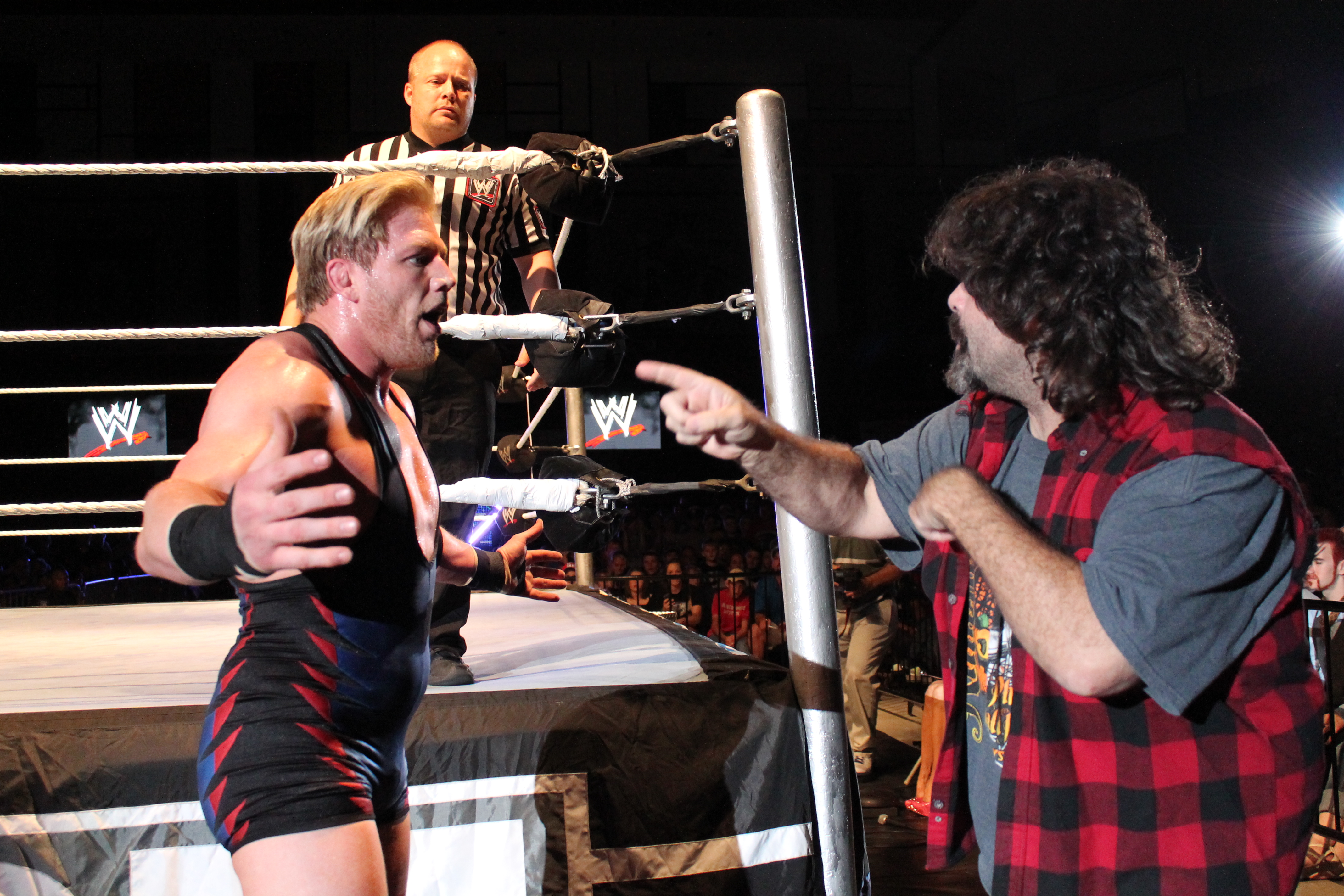 foley and swagger